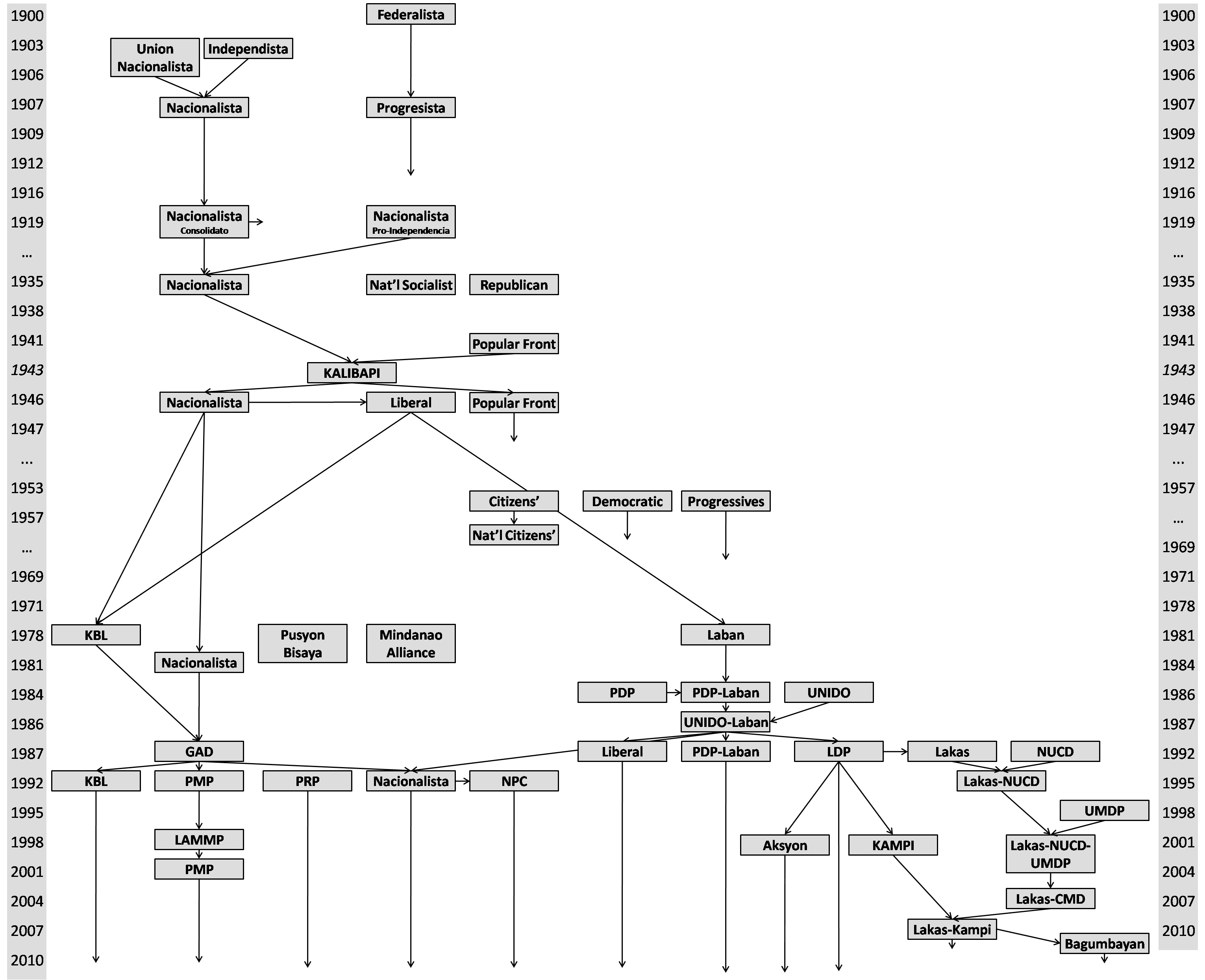 Evolution of Philippine political parties